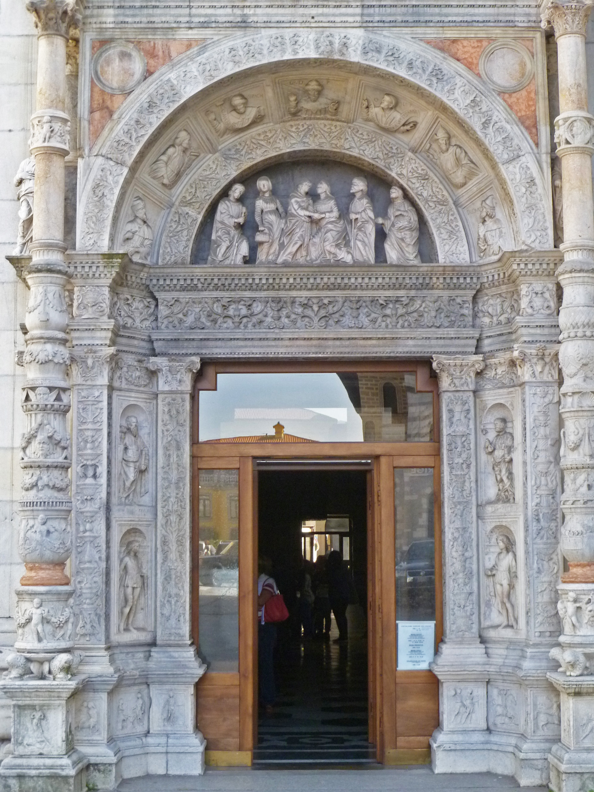 "The Door of the Frog" (1507), by Tommaso and Giacomo Rodari; cathedral of Como; Como, Italy